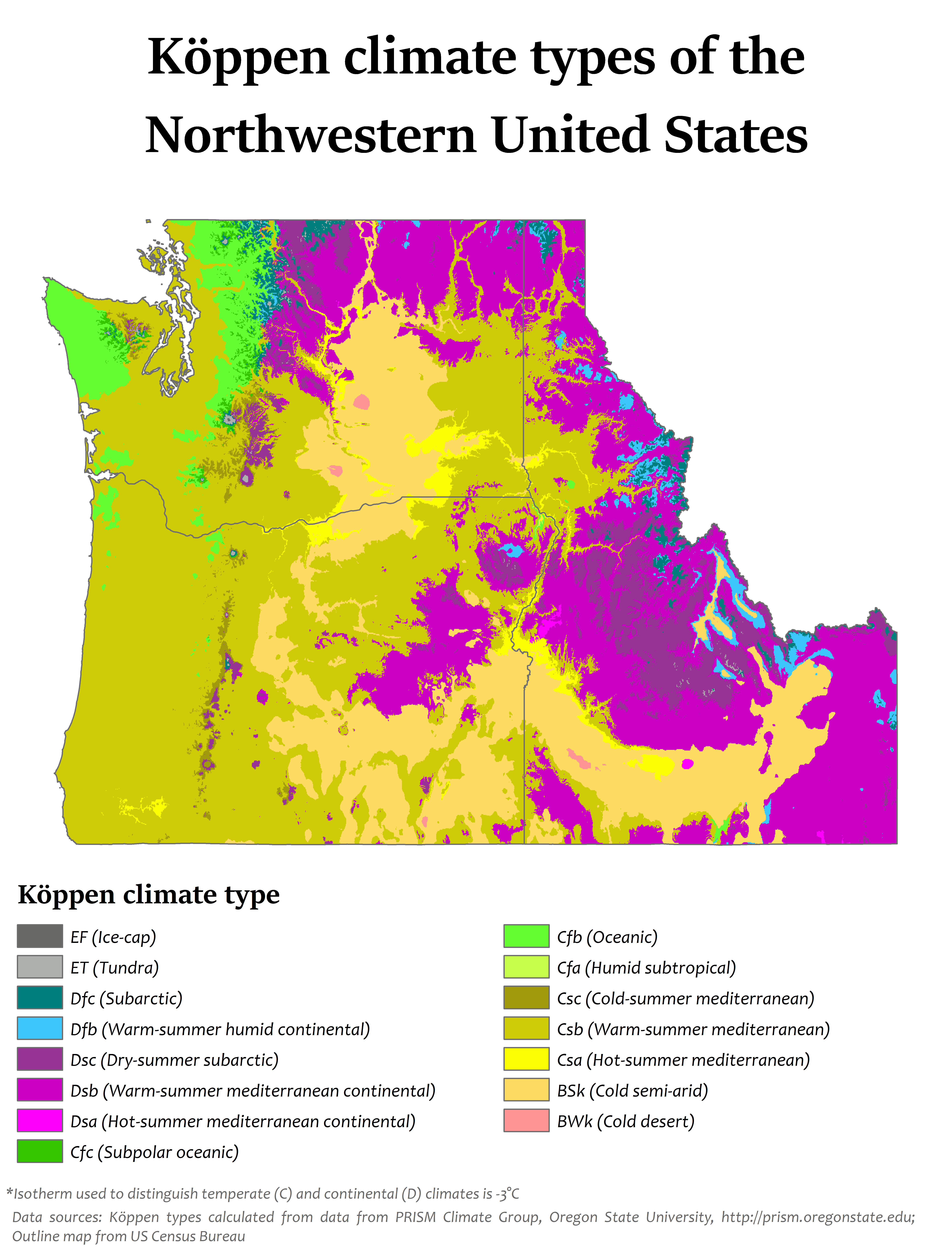 Köppen climate types in the Northwestern United States